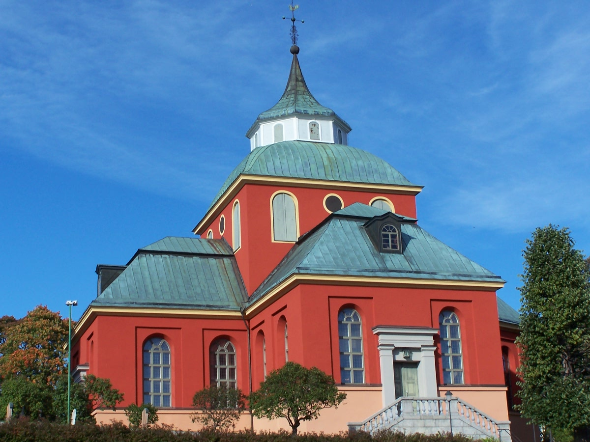 Söderhamn church from west, Sweden